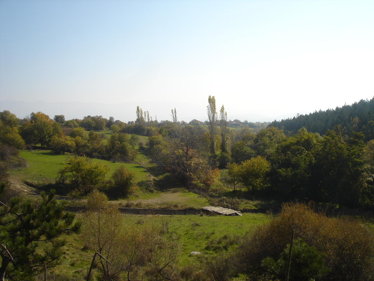 Landscape of Slavište valley, near the village of Otošnica village in Kriva Palanka region, northeastern Macedonia